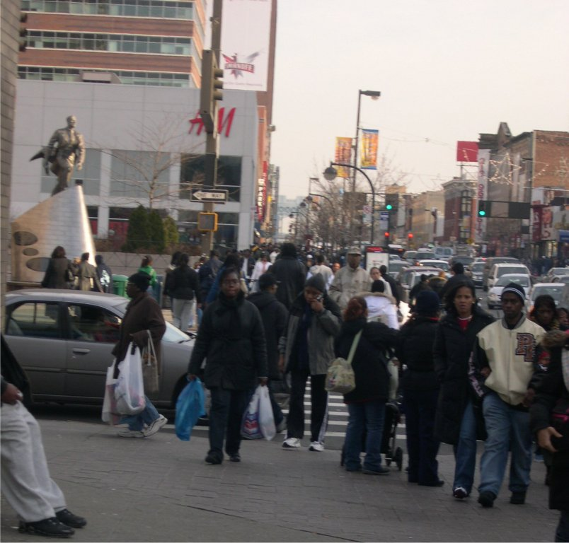 Christmas Shopping at NY State Office Building, at Park Avenue and 125th Street, Harlem. Taken 2005 by Dan Anderson.